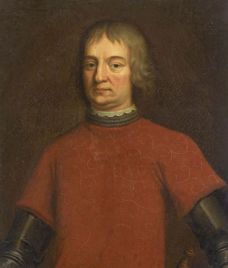 Fictive 18th century portrait representing Aymeri VI (died 1388), viscount of Narbonne (1341-1388) and admiral of France (1369-1373)